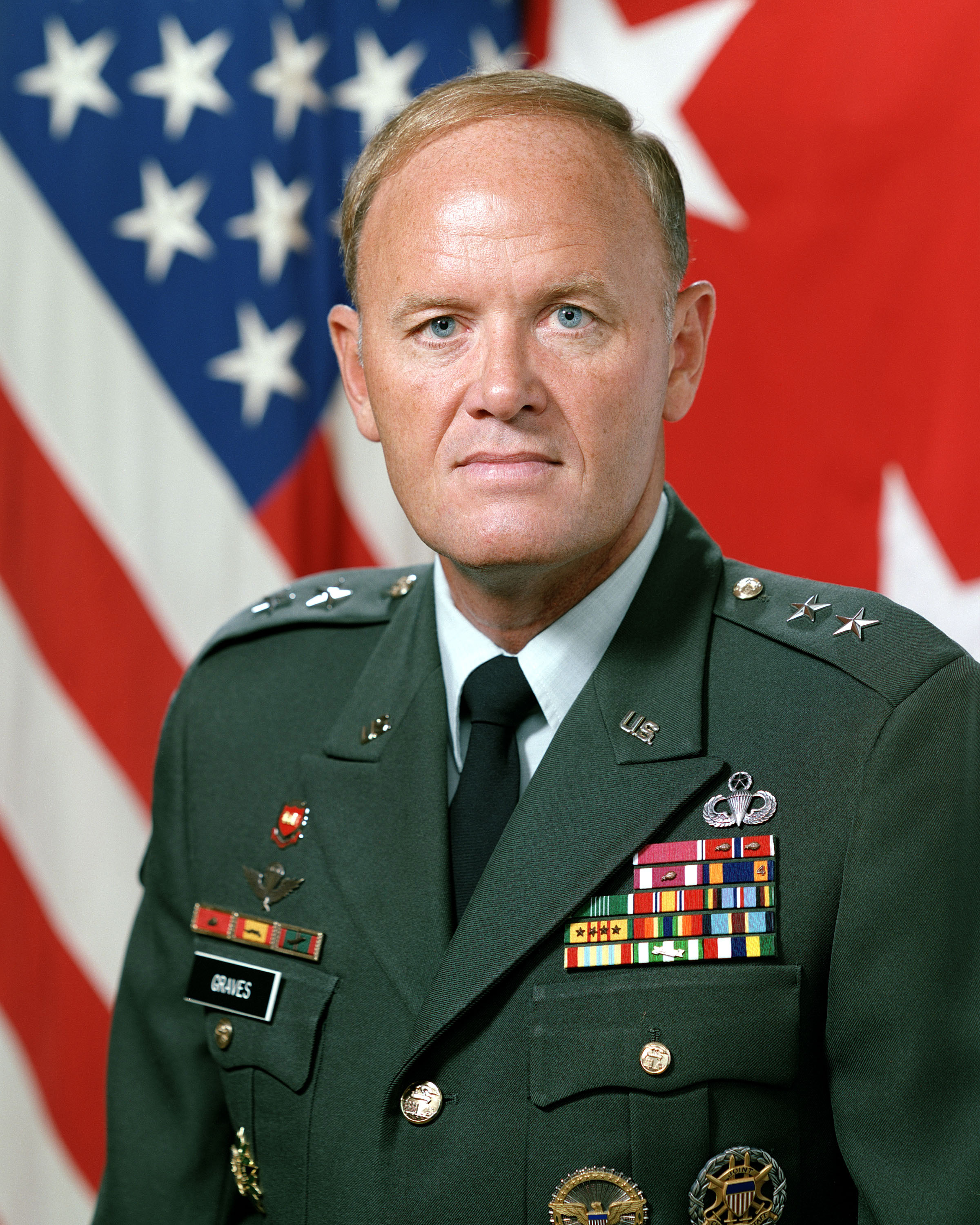 Howard D. Graves